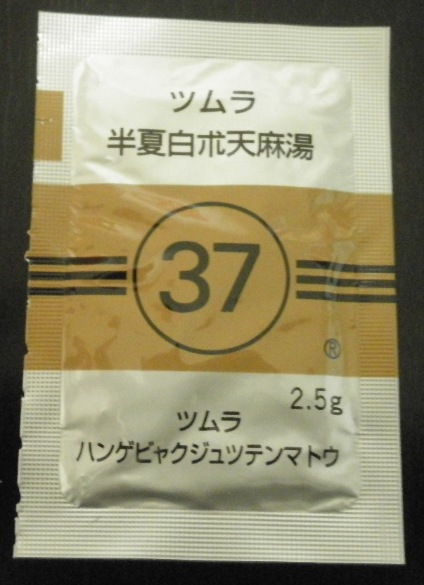 Chinese medicine whose name is Hangebyakujyututenmatou